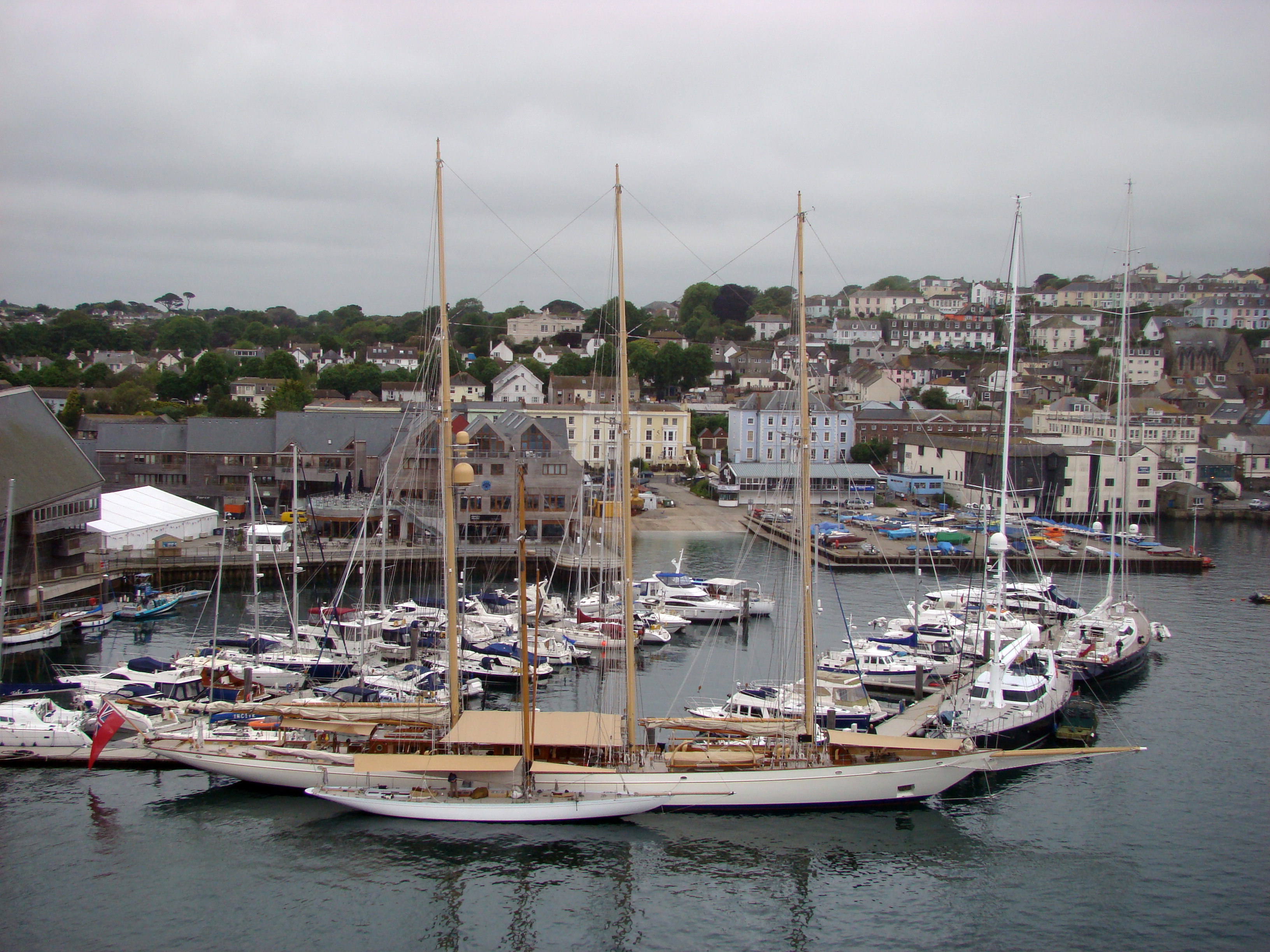 Falmouth, Marina